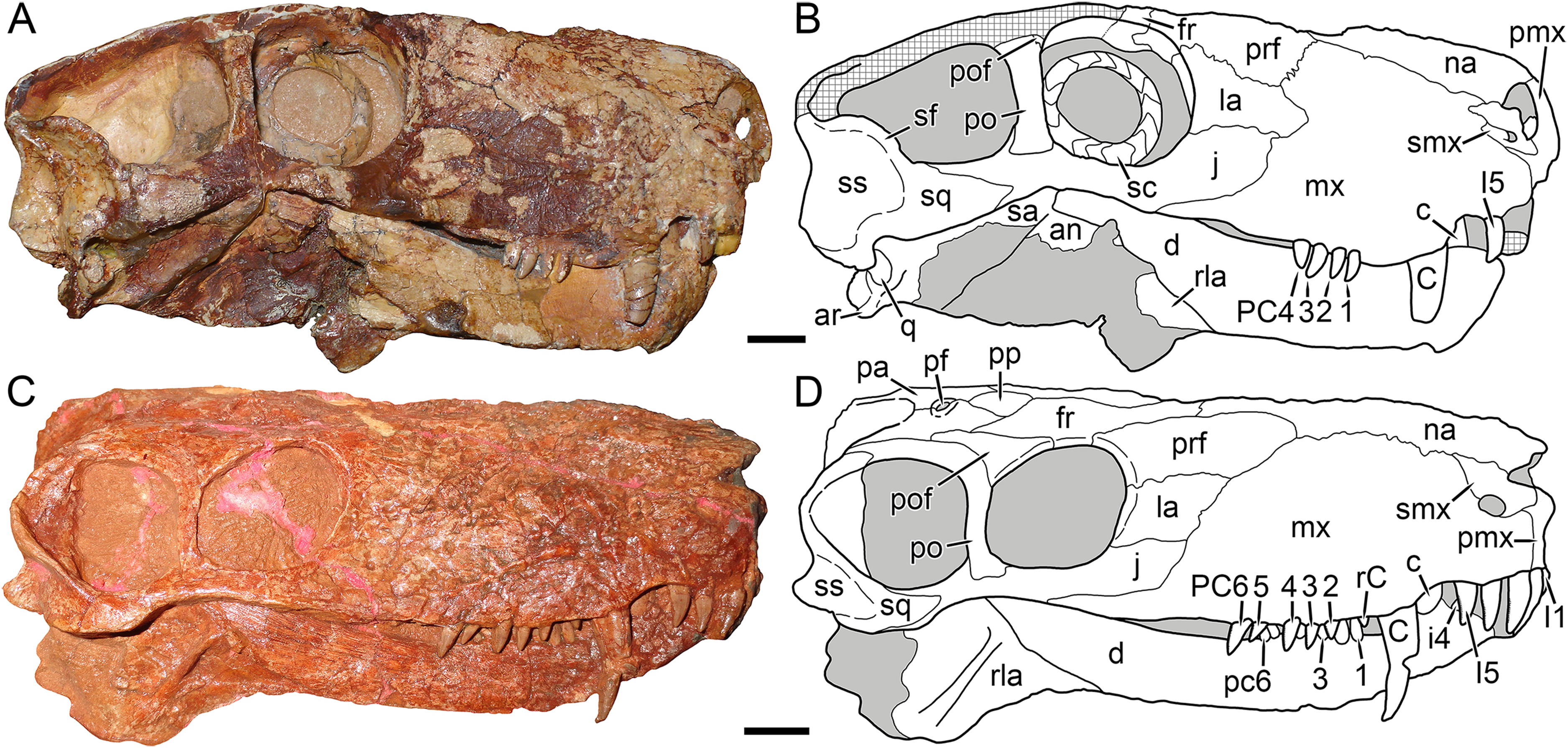 Kotelnich gorgonopsians compared in lateral view. (A) PIN 2212/6, holotype of Viatkogorgon ivakhnenkoi, in right lateral view with (B) interpretive drawing. (C) KPM 310, holotype of Nochnitsa geminidens, in left lateral view (mirrored for comparative purposes and with non-cranial parts of block edited out) with (D) interpretive drawing. Abbreviations: an, angular; ar, articular; C, upper canine; c, lower canine; d, dentary; fr, frontal; I, upper incisor; i, lower postcanine; j, jugal; la, lacrimal; mf, maxillary flange; mx, maxilla; na, nasal; pa, parietal; PC, upper postcanine; pc, lower postcanine; pf, pineal foramen; pmx, premaxilla; po, postorbital; pof, postfrontal; pp, preparietal; prf, prefrontal; rla, reflected lamina of angular; sa, surangular; sc, sclerotic ring; sf, squamosal flange; smx, septomaxilla; sq, squamosal; ss, squamosal sulcus. Gray indicates matrix, hatching indicates plaster. Scale bars equal 1 cm.